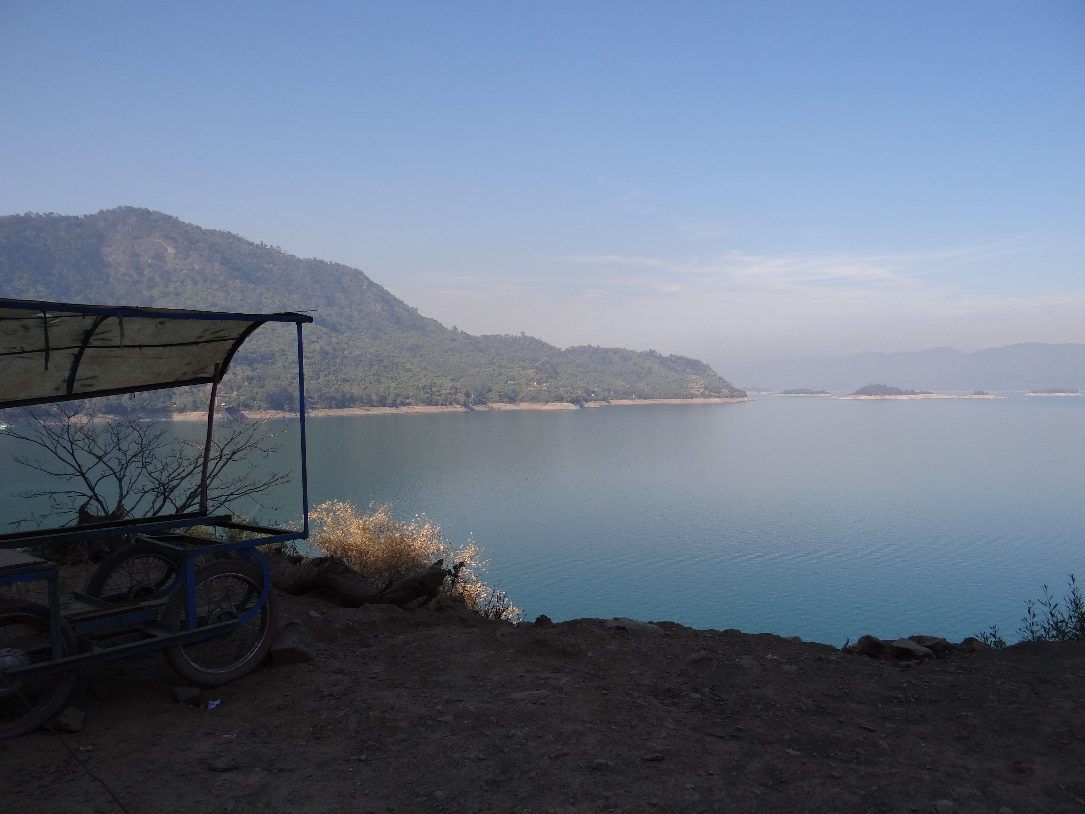 Beautiful view during noon of winter season at a bank of Gobind Sagar Lake comes under Gobind Sagar Wildlife Sanctuary, Bilaspur, Himachal Pradesh, India